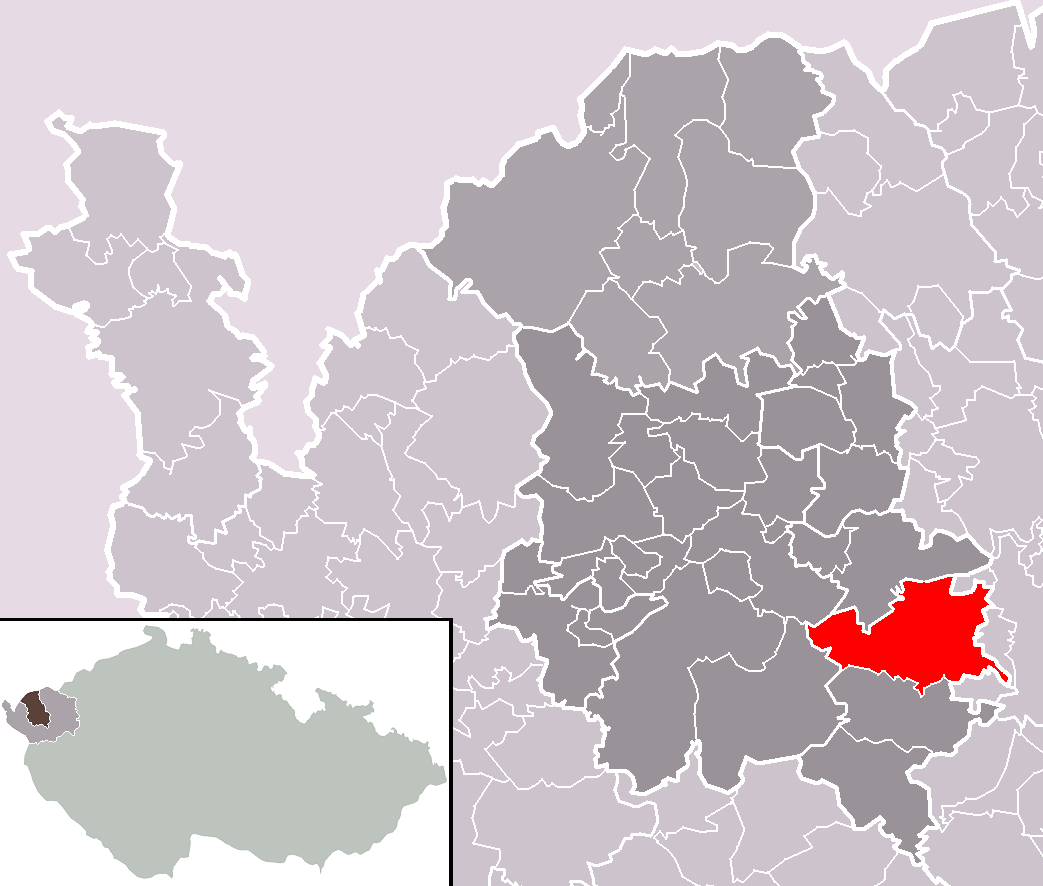 Location of Horní Slavkov municipality within Sokolov District and administrative area of Sokolov as a Municipality with Extended Competence.